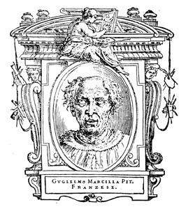 Illustratio from "Le Vite" by Giorgio Vasari, edition of 1568. For the artist portrayed see filename